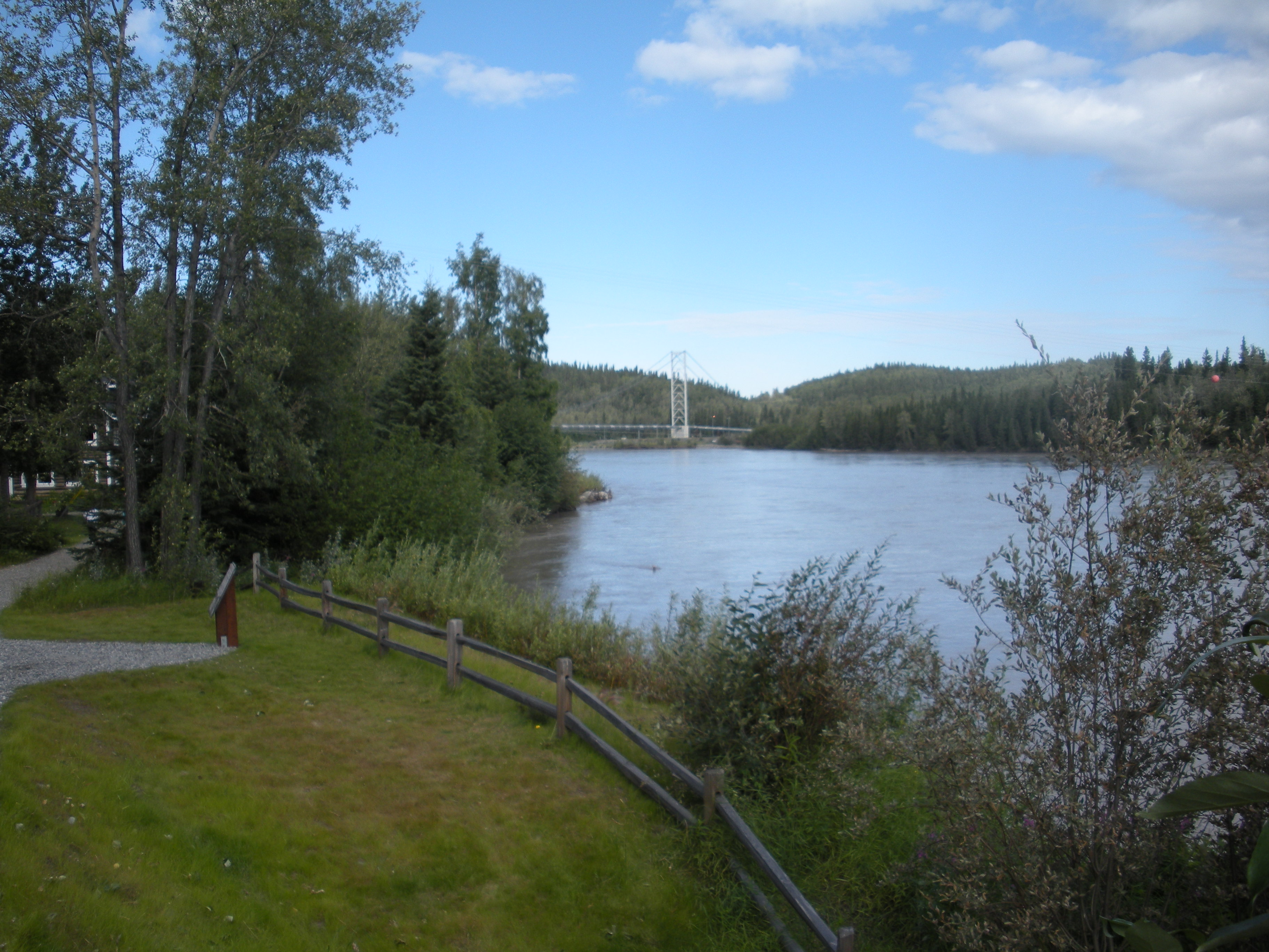 Rika's Landing Roadhouse, a roadhouse on the National Register of Historic Places in Southeast Fairbanks Census Area, Alaska, United States. It is located at mile 252 of the Richardson Highway in Big Delta at a historically important crossing of the Tanana River. It is in the Big Delta State Historical Park and is NRHP Building #76000364, added 1976. The roadhouse is named after Rika Wallen. This particular view is of the Tanana, downstream. The Alaska Pipeline river crossing bridge is partly visible